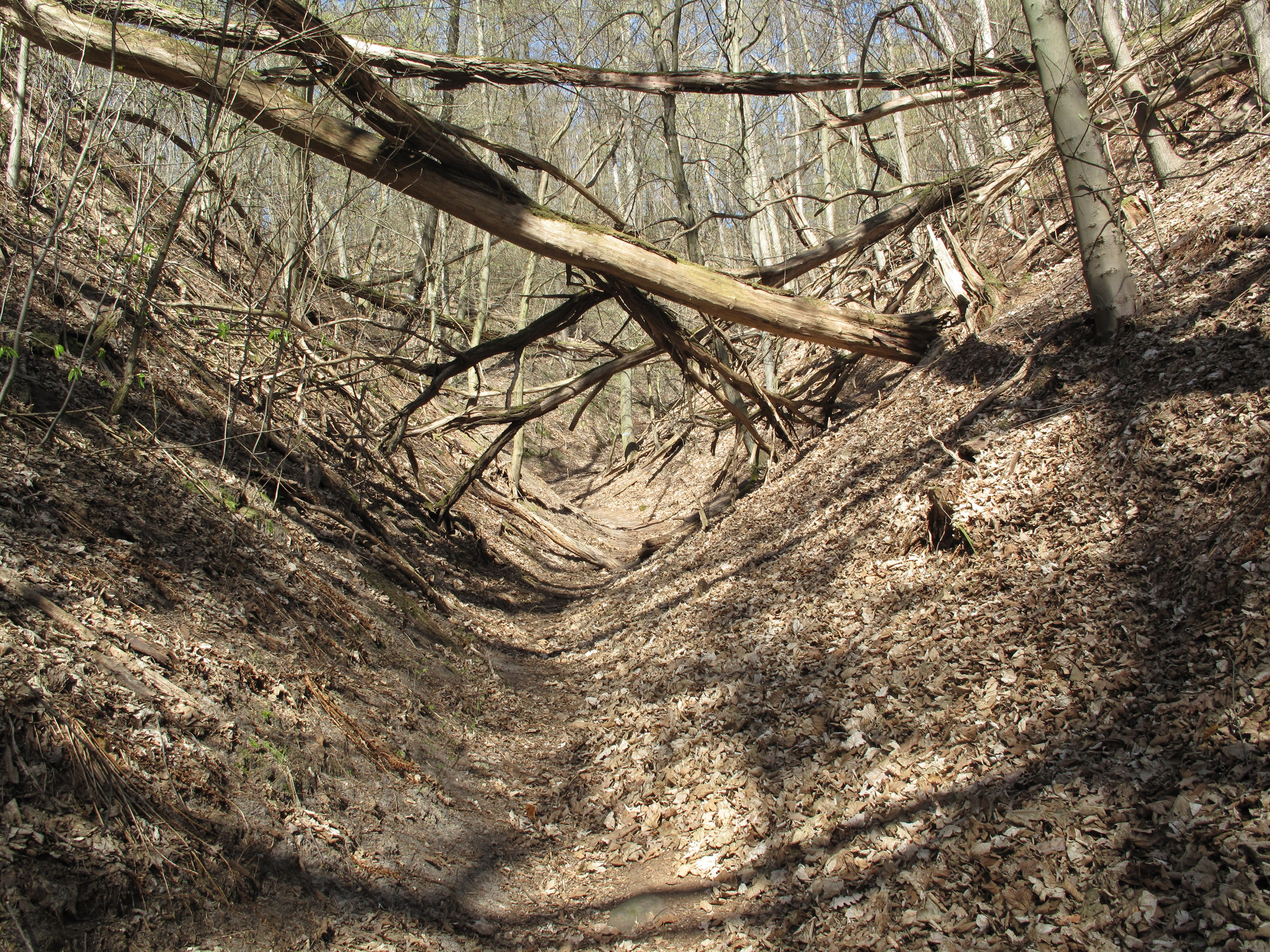 The Wolfsschlucht (german for: Wolves-chine) i a valley in the hill country „Märkische Schweiz“ and in the Märkische Schweiz Nature Park. This specific valley-type is named „Kehle“ in the Märkische Schweiz. It is situated in Pritzhagen, a village of the municipality Oberbarnim in the District Märkisch-Oderland, Brandenburg, Germany.